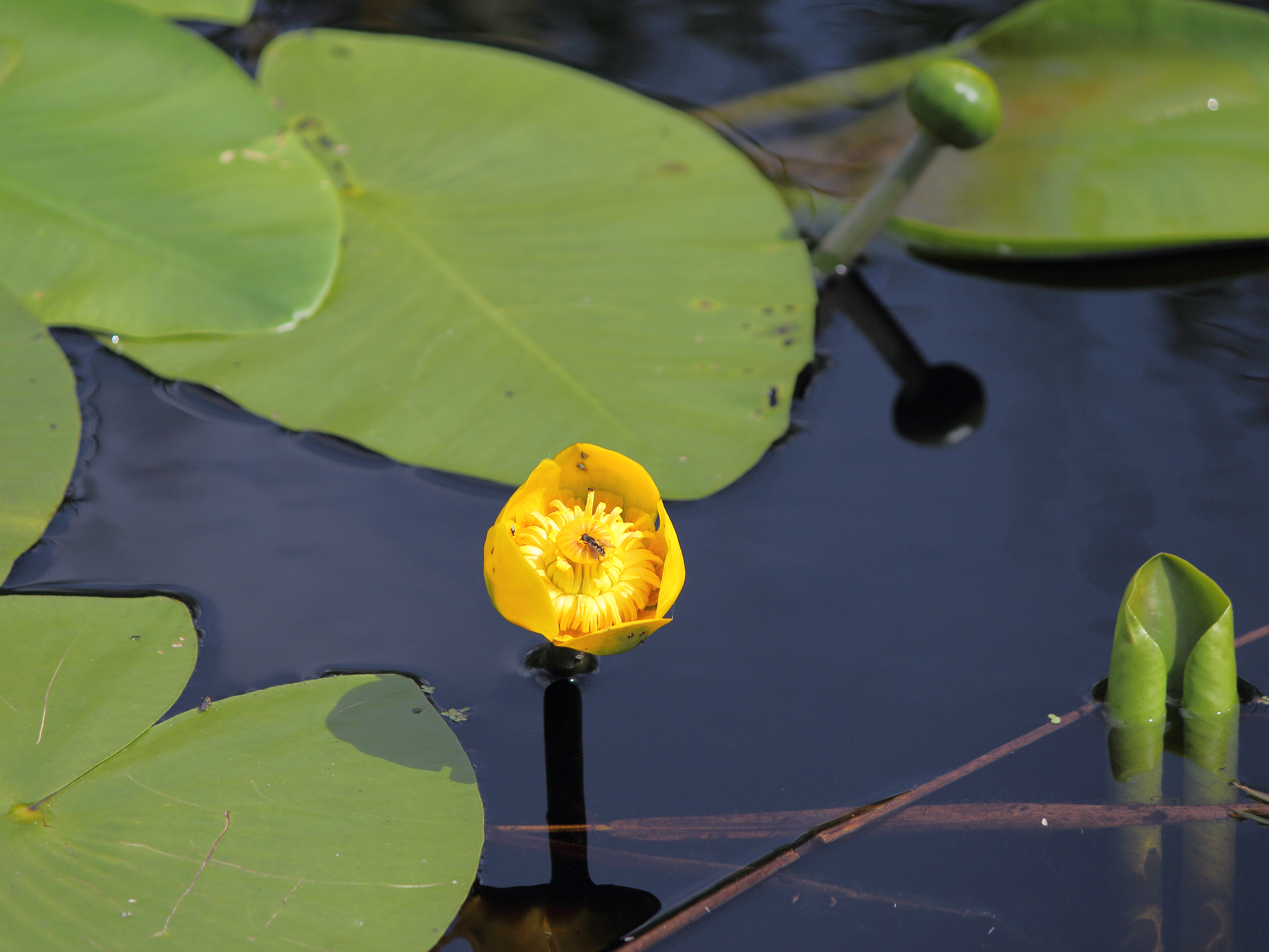 National Park De Alde Feanen. Location, It Wikelslân. Nuphar lutea. This is a photo or sound file made in De Alde Feanen National Park in the Netherlands, with the main subject of the file in the category: flora